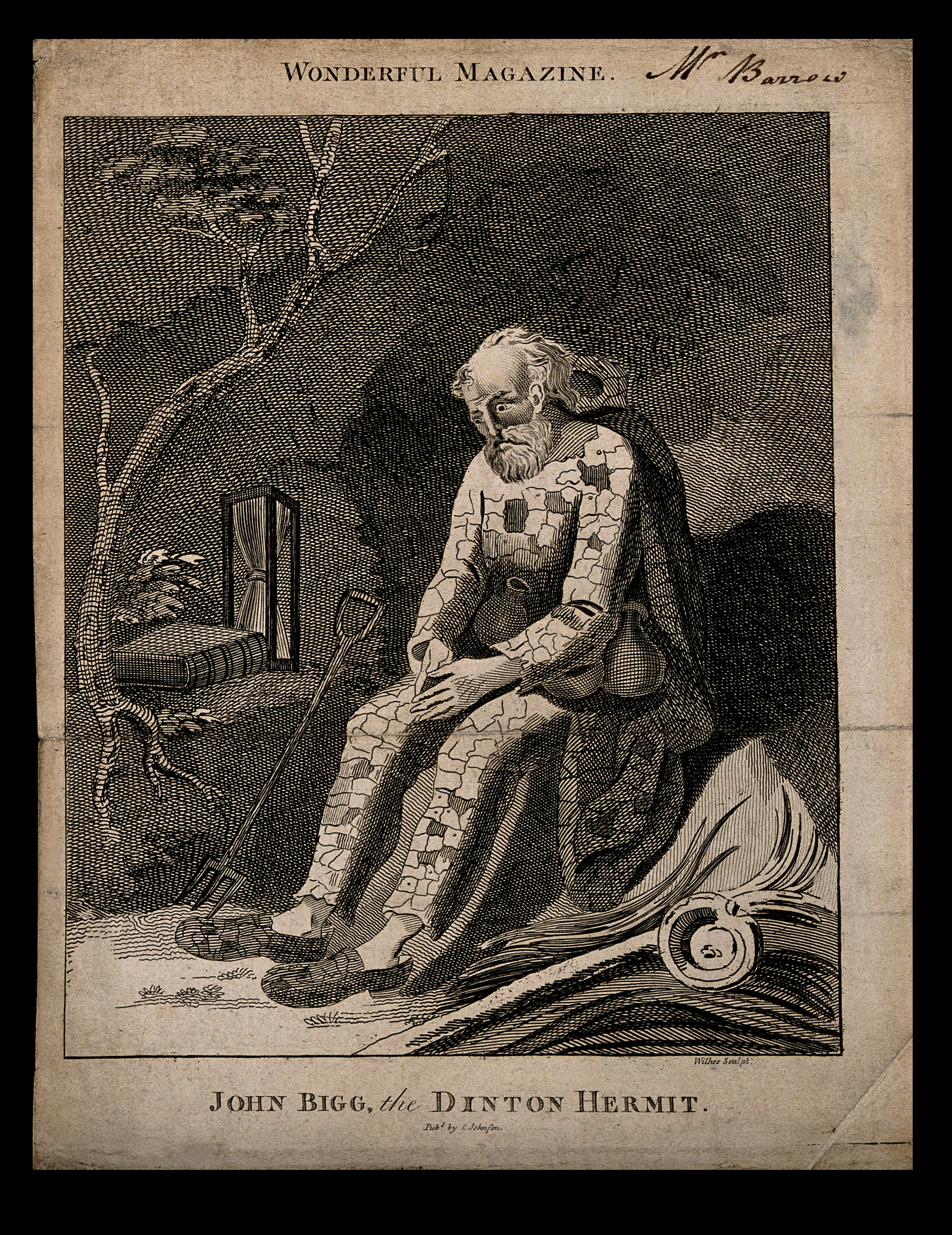 John Bigg, an eccentric hermit. Line engraving by Wilkes. Iconographic Collections Keywords: John Bigg; engravings; Wilkes; portrait prints; eccentrics and eccentricities; bigg, john, ca.1629-1696; hermits